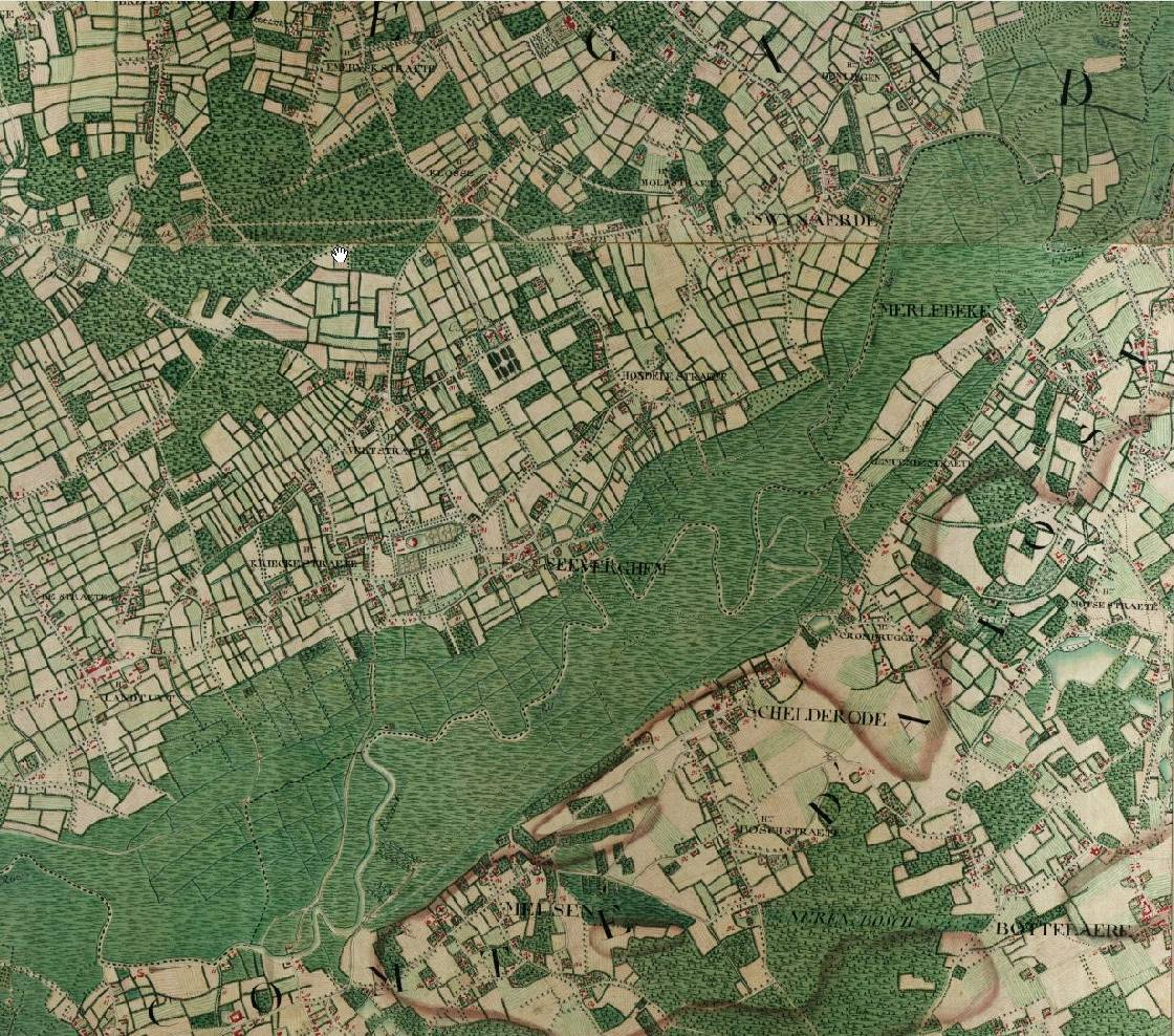 Schelde_bij_Merelbeke,_Belgium,_Ferraris,_1777.jpg